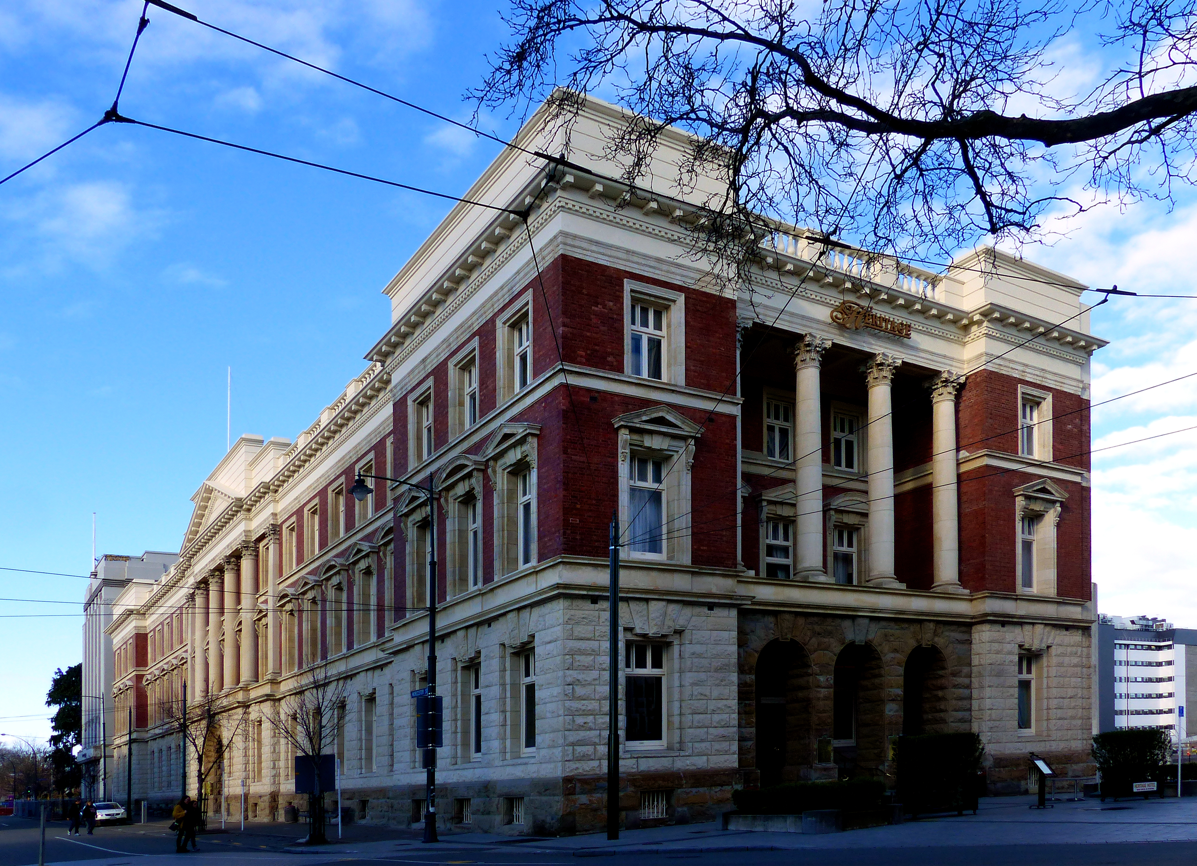 Designed by Joseph Clarkson Maddison and opened in 1913, the OGB is registered as a Category One Building on the Historic Places Trust register. The building was awarded the Christchurch Heritage Trust Built Heritage Award in 2010 and the New Zealand Seismic Award 2012 in the Canterbury Heritage awards. The Old Government Building which houses the hotel’s luxury suites and food and beverage facilities survived the February 22nd 2011 earthquake with relatively minor structural damage and with no harm to guests and staff. It has been behind the red zone cordon for the past two years, whilst careful planning and a loving restoration has taken place.